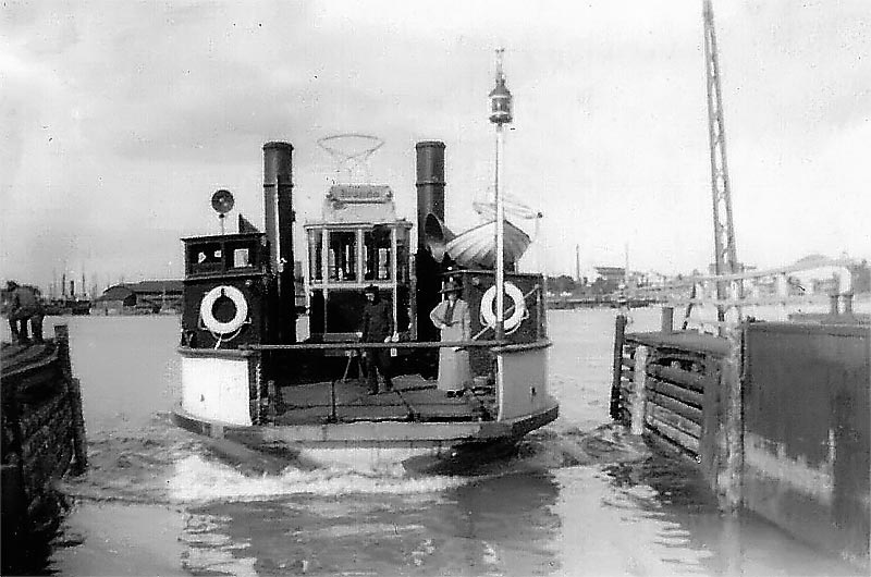 Tram on a ferry aproaching Kulosaari in Helsinki